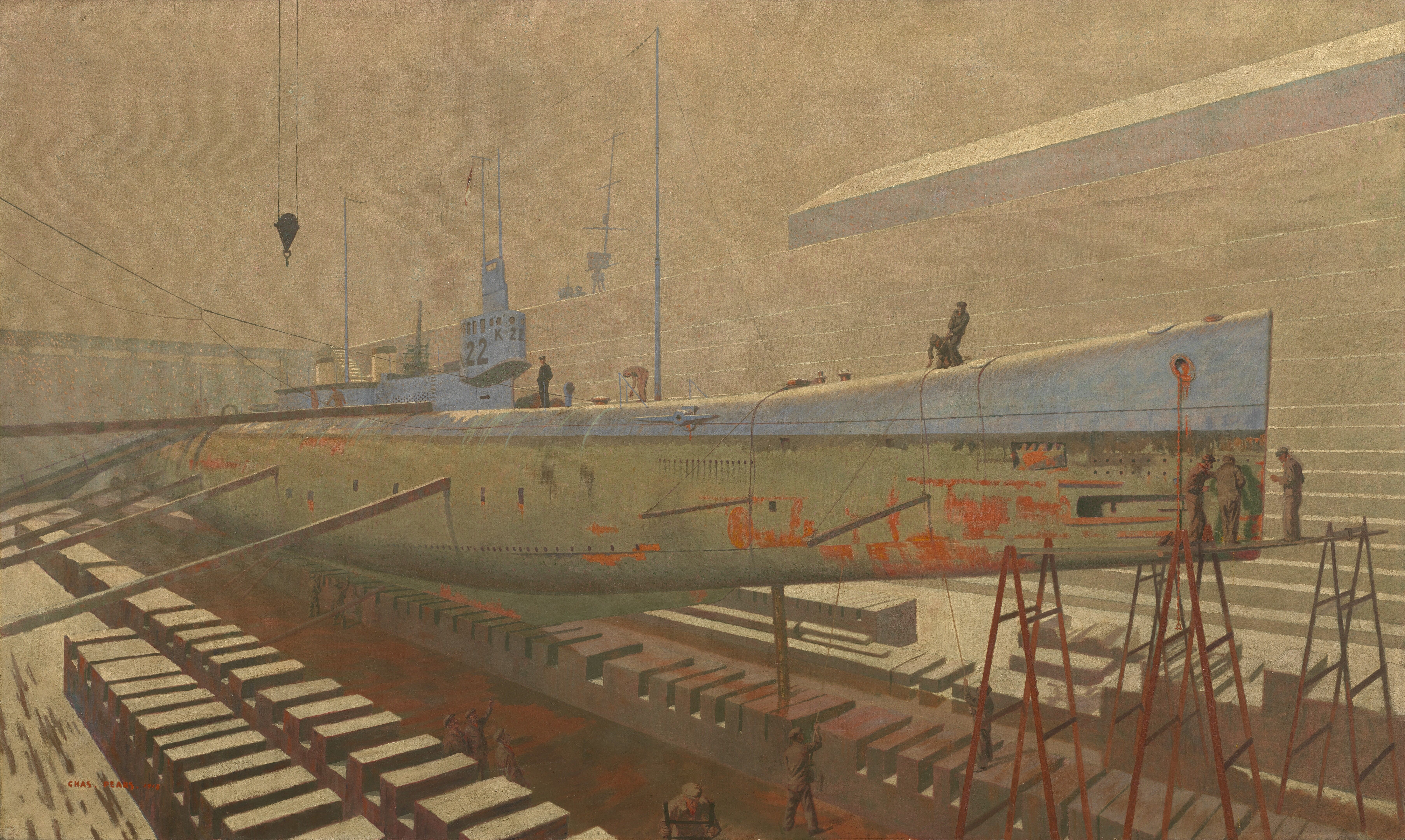 image: A Royal Navy submarine in dry dock at Rosyth, with the bow held up by scaffolding. A few men stand on the scaffolding working on the bow, in the right foreground. Other men stand on the deck of the vessel.